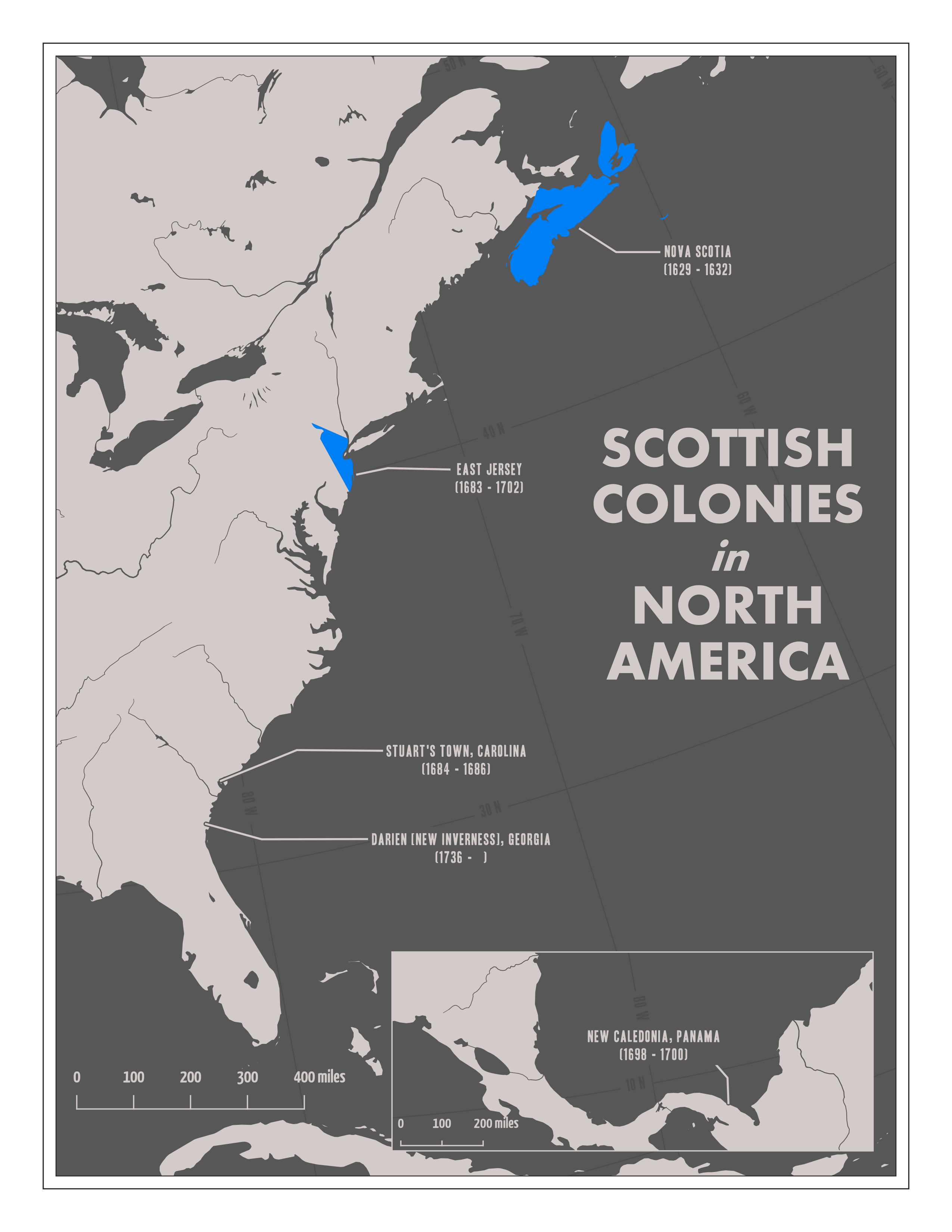 Scotland's colonies in North America.